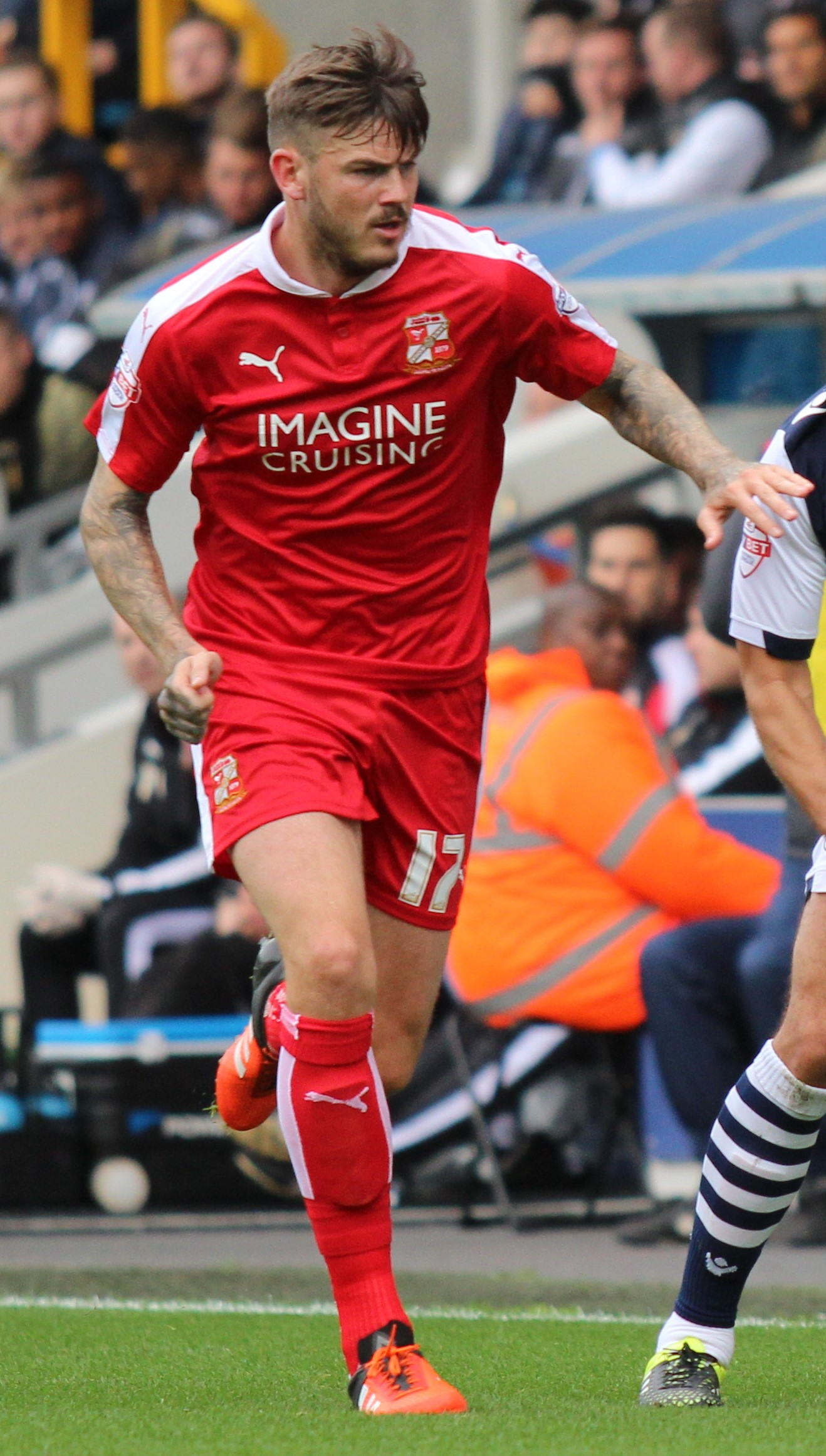 Joe Martin of Millwall and Ben Gladwin of Swindon Town chase down a loose ball.